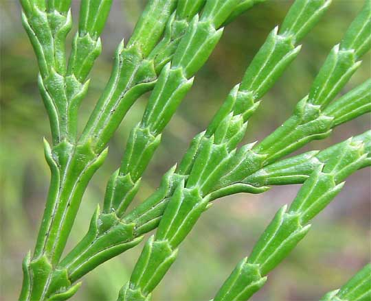 The scale-like leaves a California Incense-cedar Calocedrus decurrens, a conifer in the Cypress family. Siskiyou Mountains west of Grants Pass, Oregon, USA.